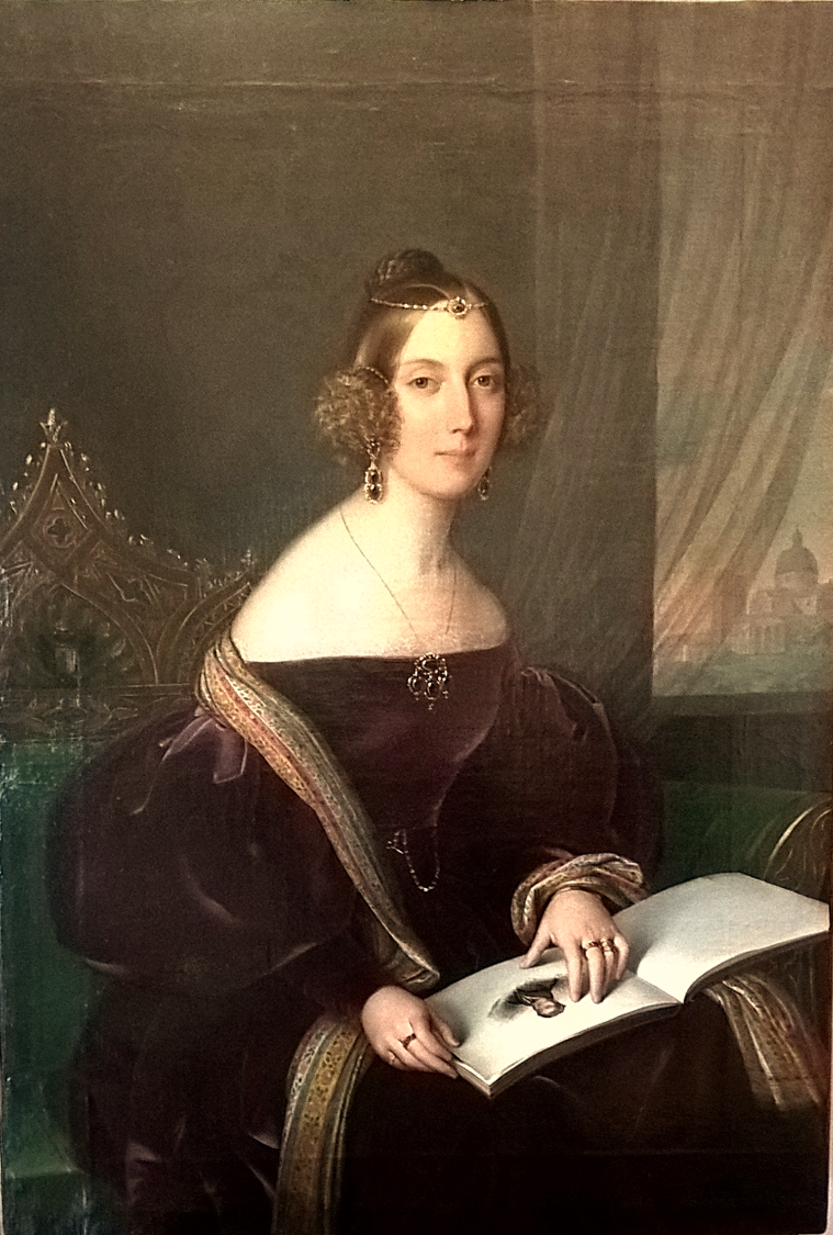 Portrait of Marianna d'Ambra Trissino dal Vello d'Oro (1812-1836) painted by Giovanni Busato (1806-1886) in 1836 (after the painting restoration made in 2016) - oil on canvas.